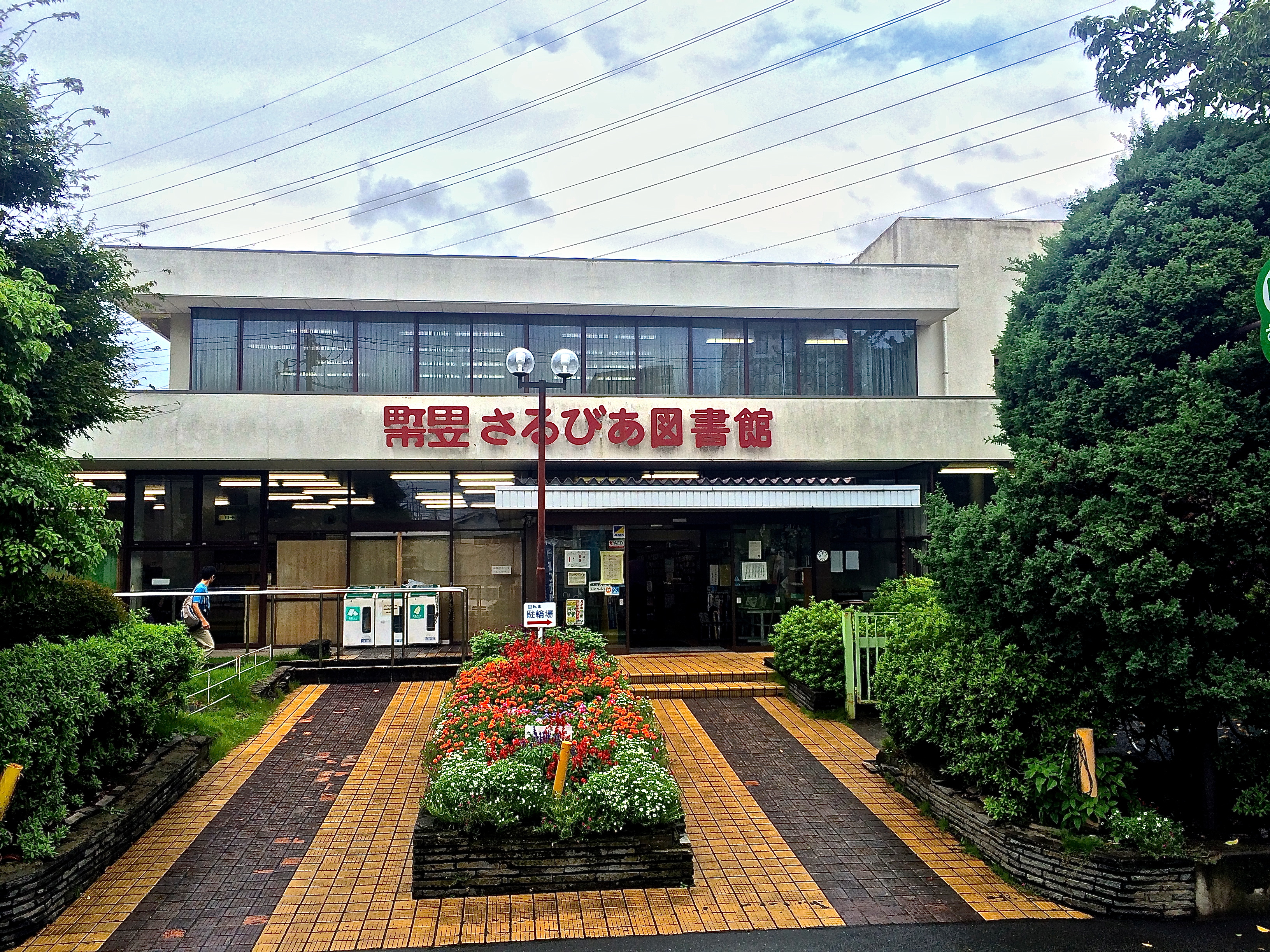 The outside of appearance of Machida City Salvia Library Edited by iPhoto